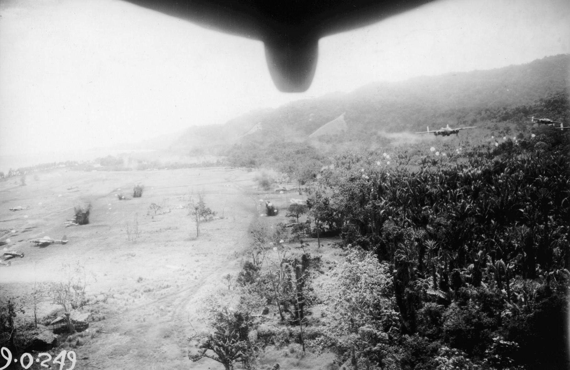 Pre-Landing strike at Japanese Airfield of Cape Gloucester.